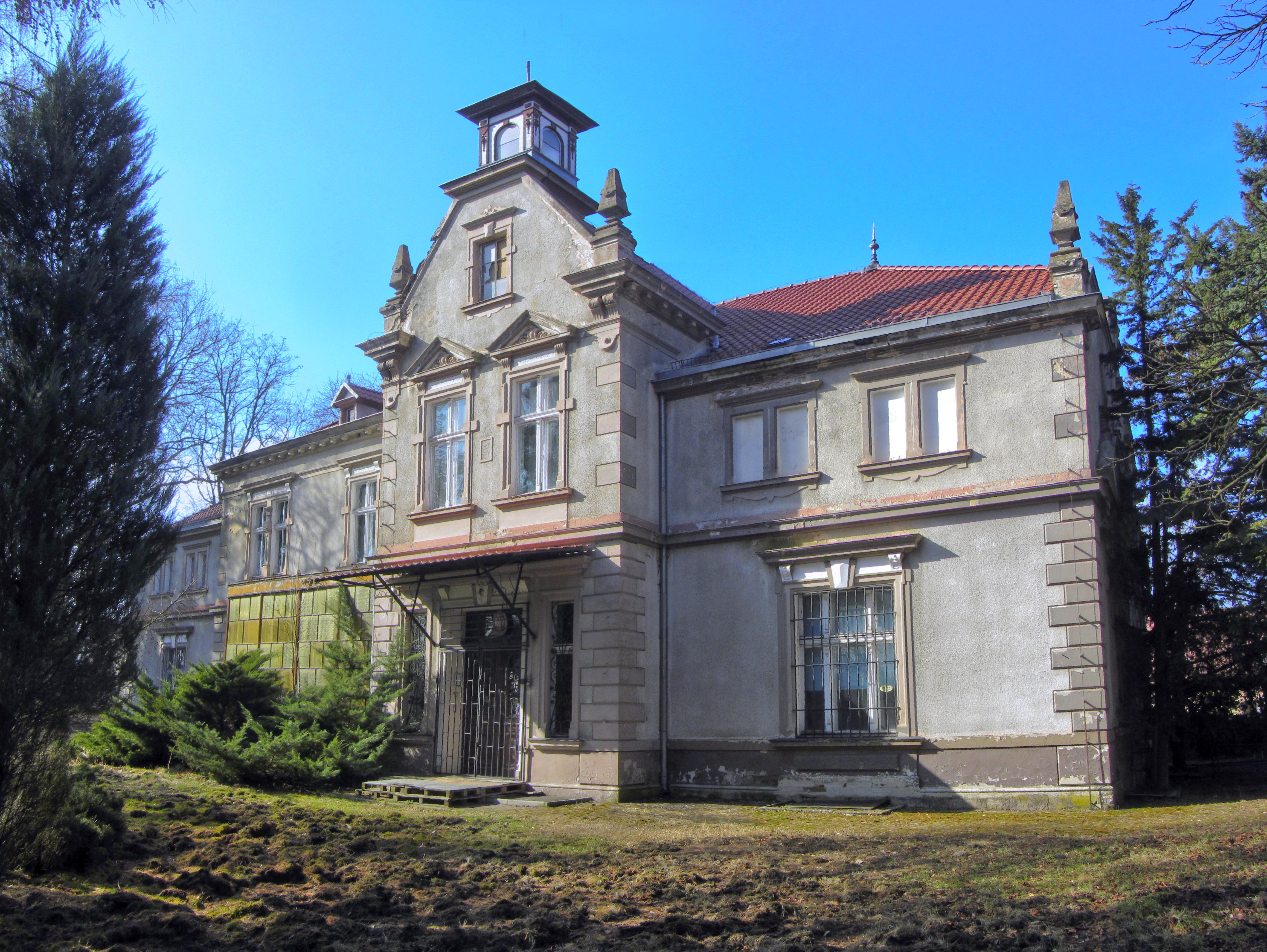 The palace in Stary Kisielin (now part of Zielona Góra). The village was called Altkessel in German before WW2